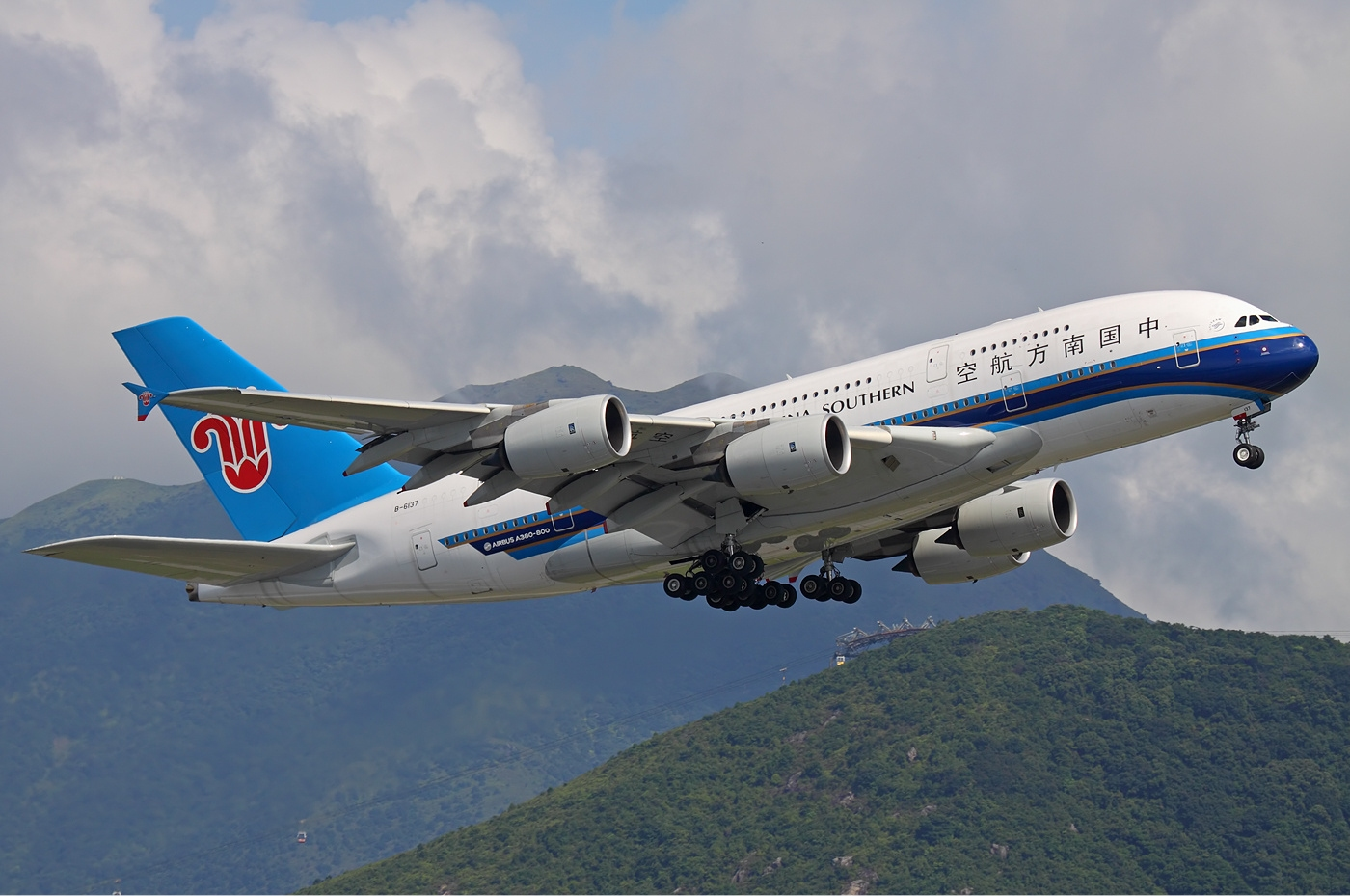 China Southern Airlines Airbus A380-841